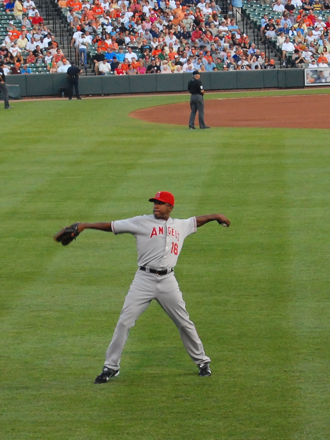 Description Garrett Anderson playing the Baltimore Orioles Date2008/07/25SourceI created this work entirely by myself.AuthorWallstreethotrod (talk) 03:16, 29 July 2008 . . Wallstreethotrod . . 1,081×1,441 (725 KB) Garrett Anderson playing the Baltimore Orioles